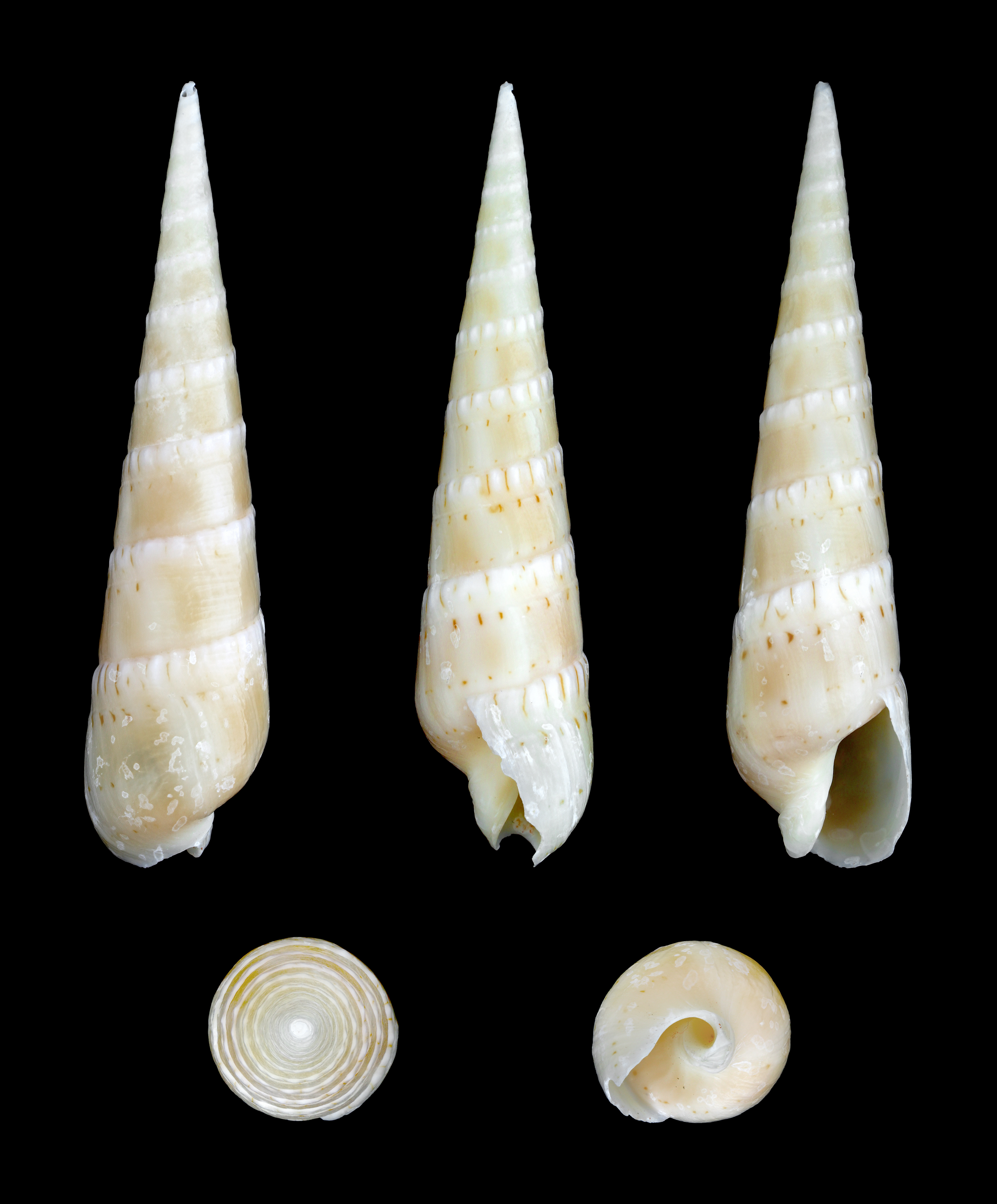 Crenulate Auger, Length 7.4 cm; Originating from the Red Sea, Hurghada, Egypt; Shell of own collection, therefore not geocoded. Dorsal, lateral (right side), ventral, back, and front view.